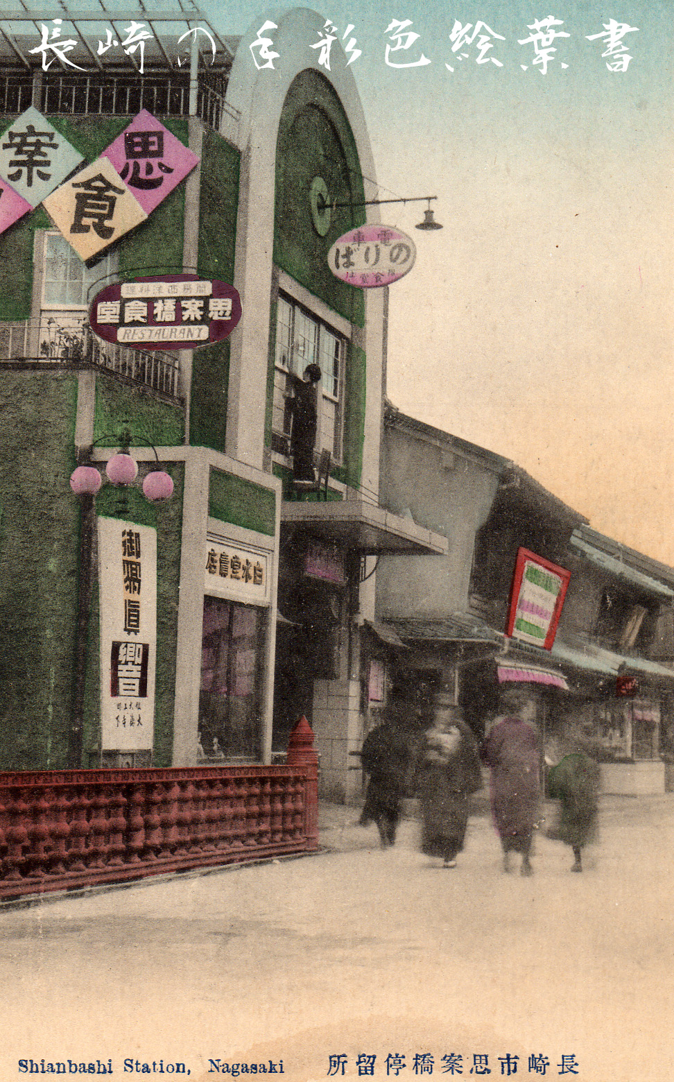 Japanese hand tinted postcard of Shianbashi Station in Nagasaki